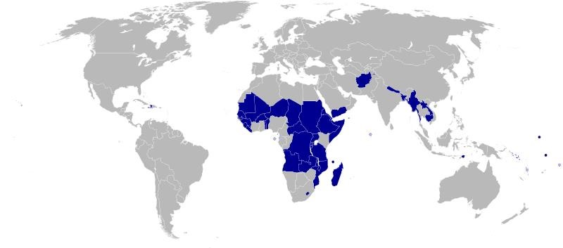 و.د